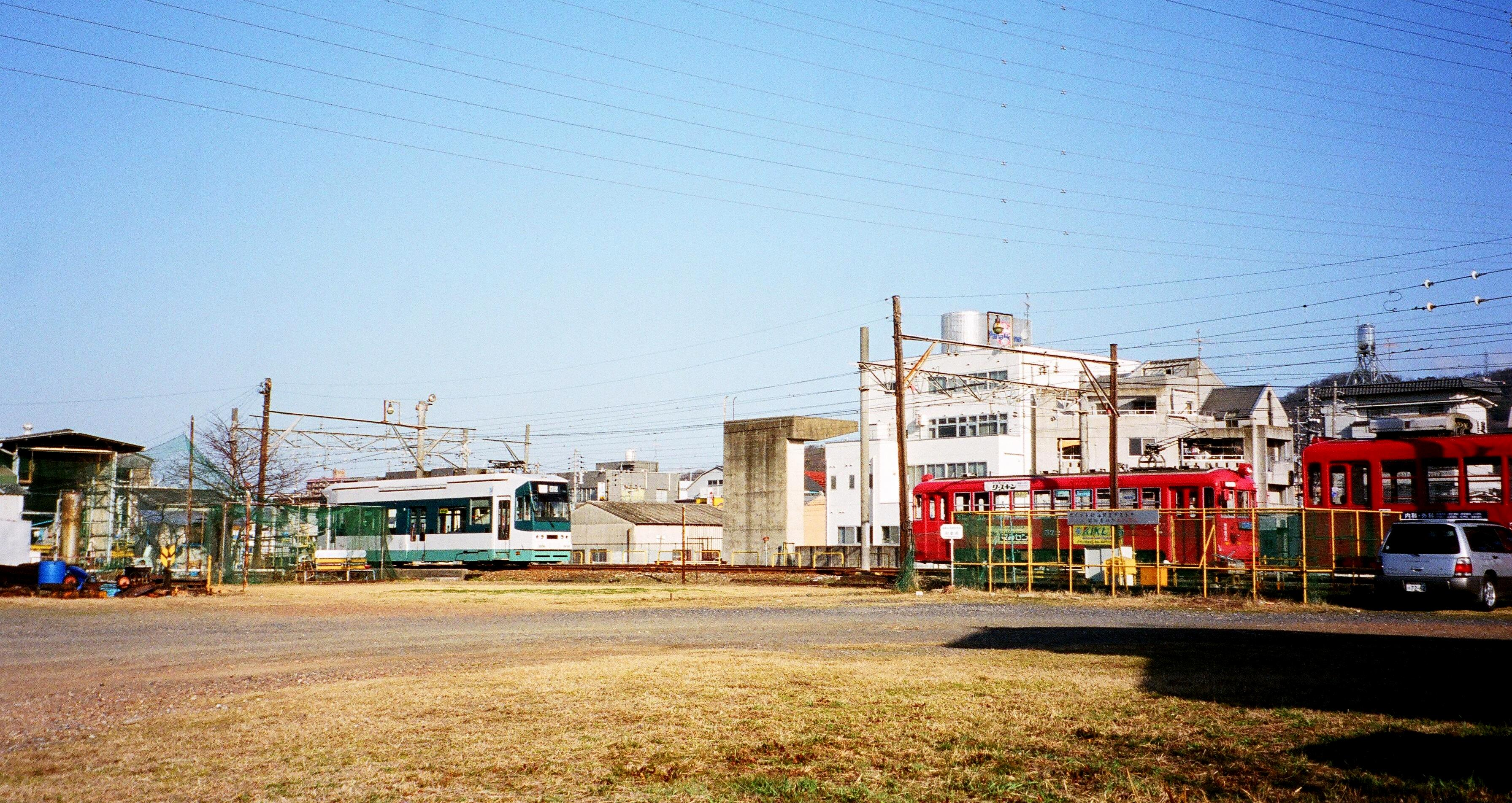 Nagoya Railroad Gifu Inspection yard is seen from the southeast side (Japan).